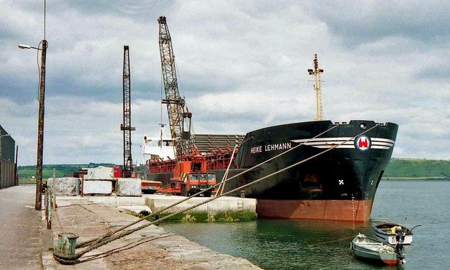 A ship at Youghal The coaster “Heike Lehmann”, discharging a cargo of steel reinforcing rods, at the basic (but more than satisfactory) quay at Youghal.